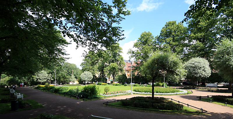 Eira park, Helsinki